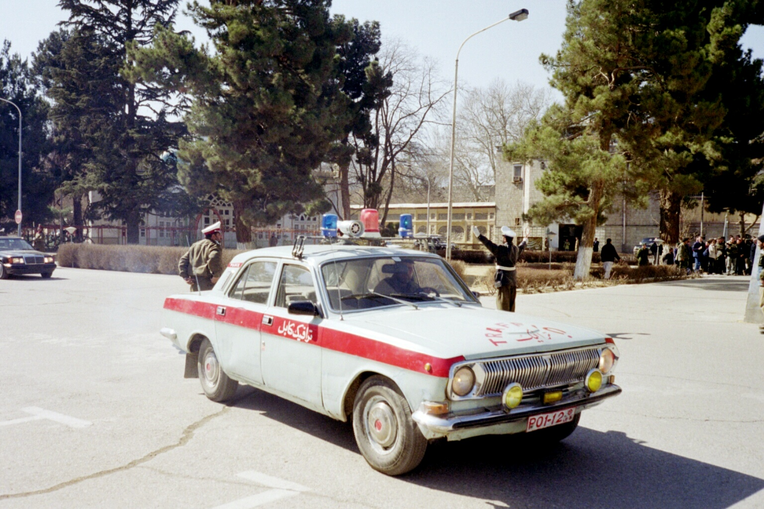 An old Russian vehicle of the Kabul traffic police in Afghanistan on 12 Feb 2002, shortly after beginning of ISAF mission in Afghanistan